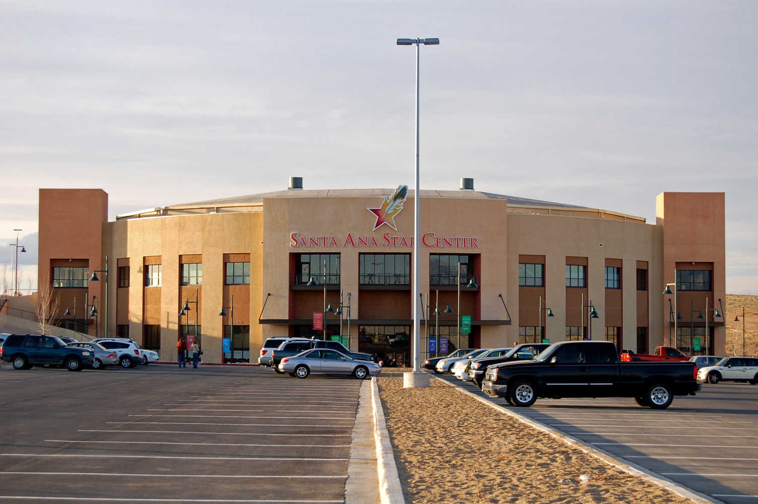 Santa Ana Star Center in Rio Rancho, New Mexico. Photo by camerafiend.